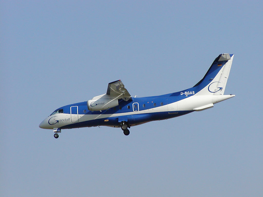 Dornier 328-300 328JET (D-BGAS) of Gandalf Airlines (Italy), Brussels, 2002